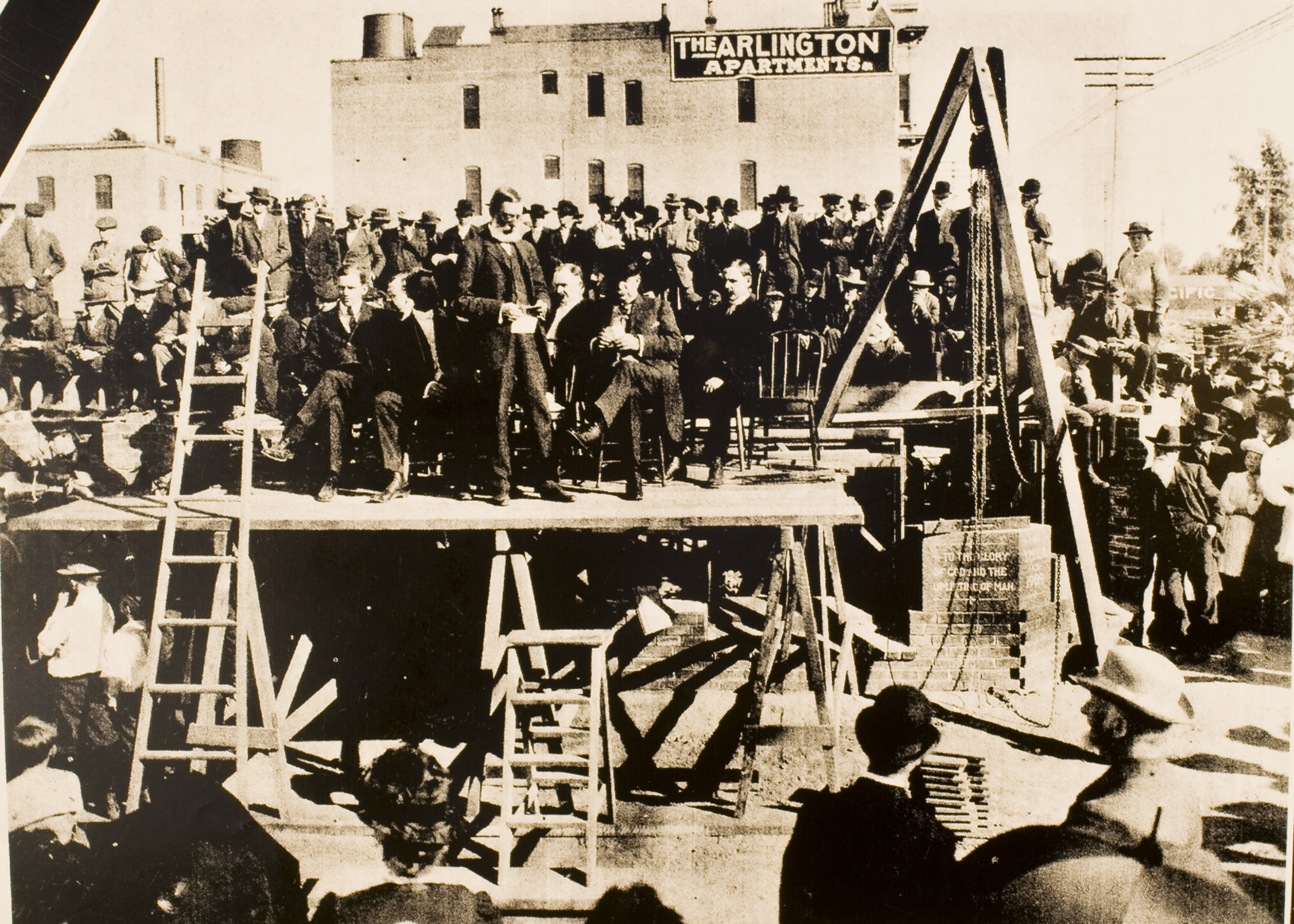 Historic photo of the inauguration of the Former ymca in Downtown Riverside, California